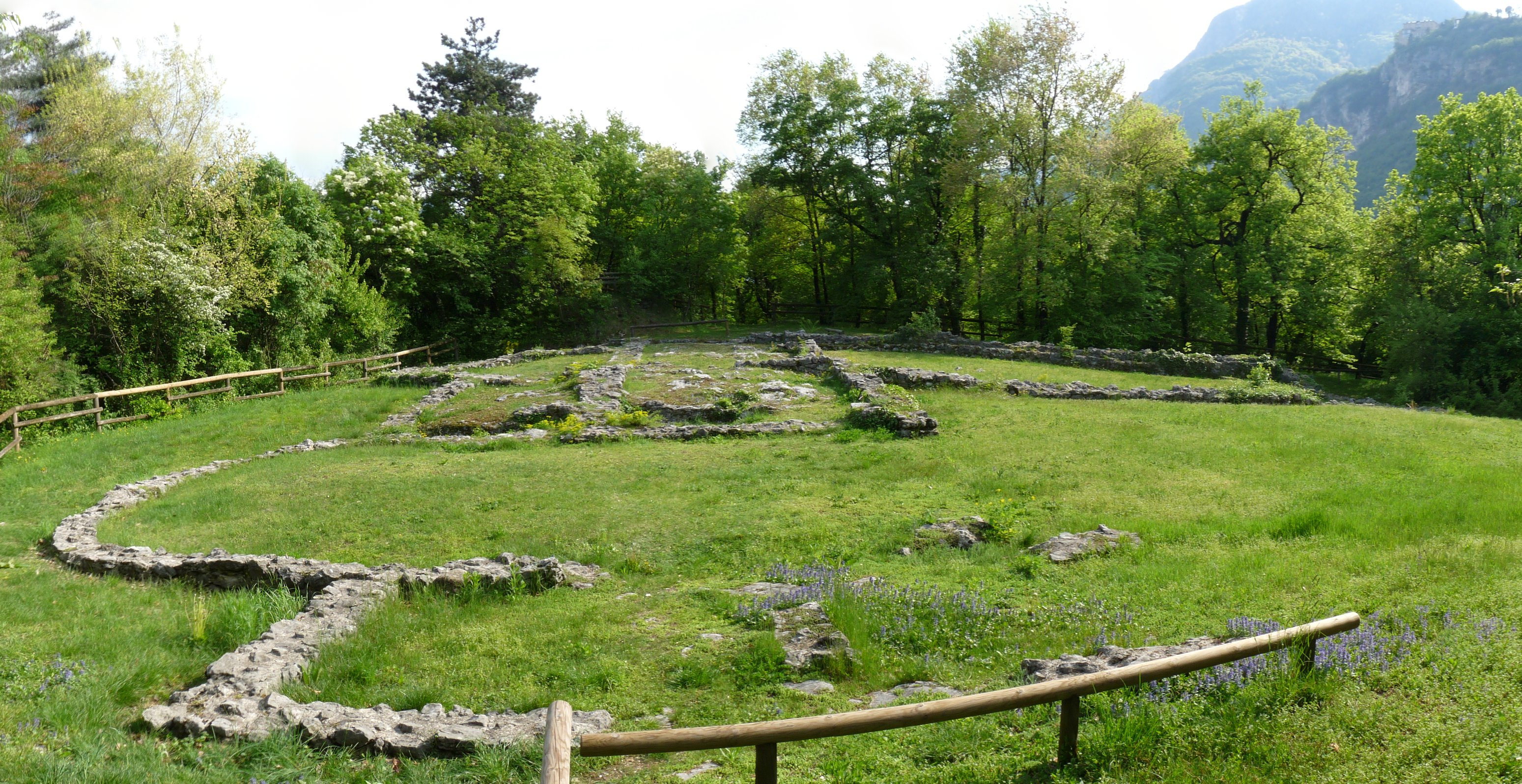 Trento (Italy): remains of the paleochristian church on the top of Doss Trento